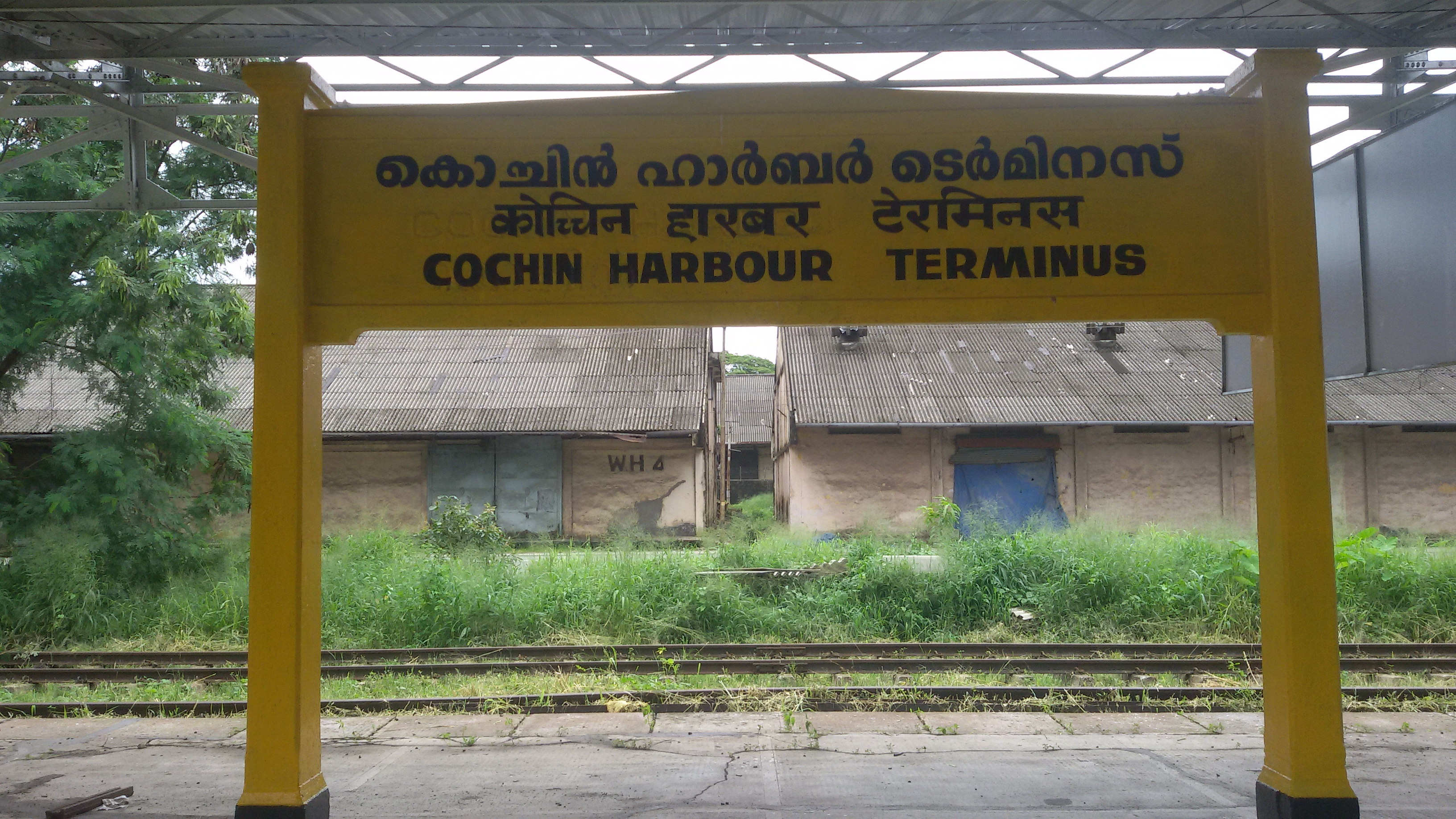 Image of Cochin Harbour Termius (CHTS) station situated at Wellington Island in Kochi.The image shows the the three language sign board in Malayalam,Hindi & English